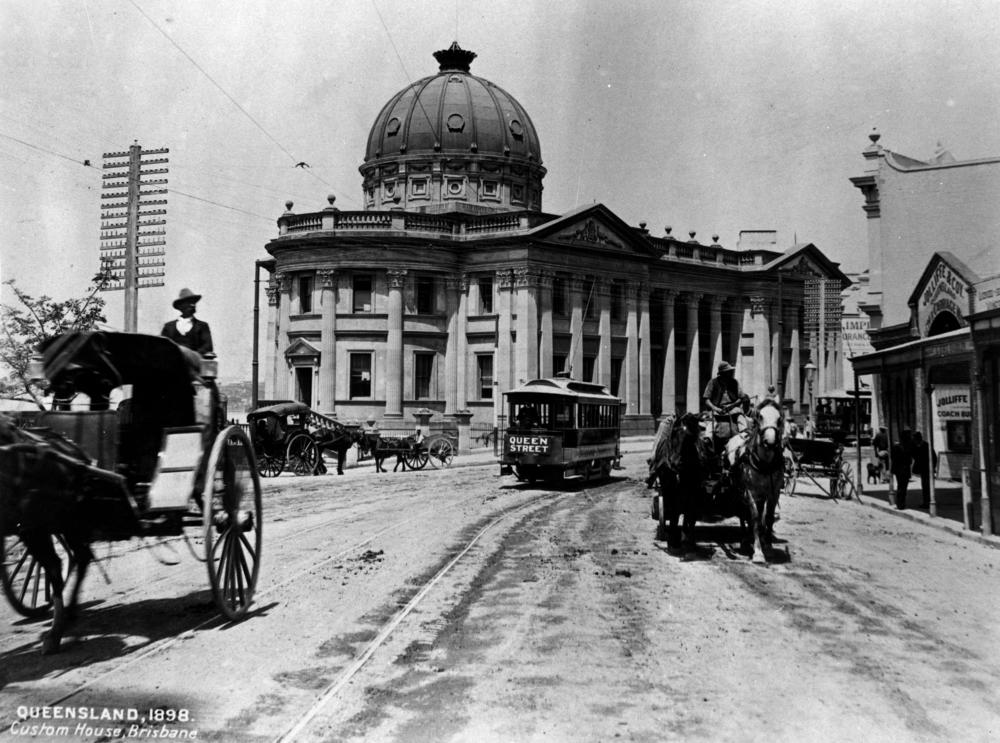 Brisbane Customs House, 1898. Image includes an electric tram and various horsedrawn vehicles. To the right are the premises of Jolliffe & Coy. coach builders.